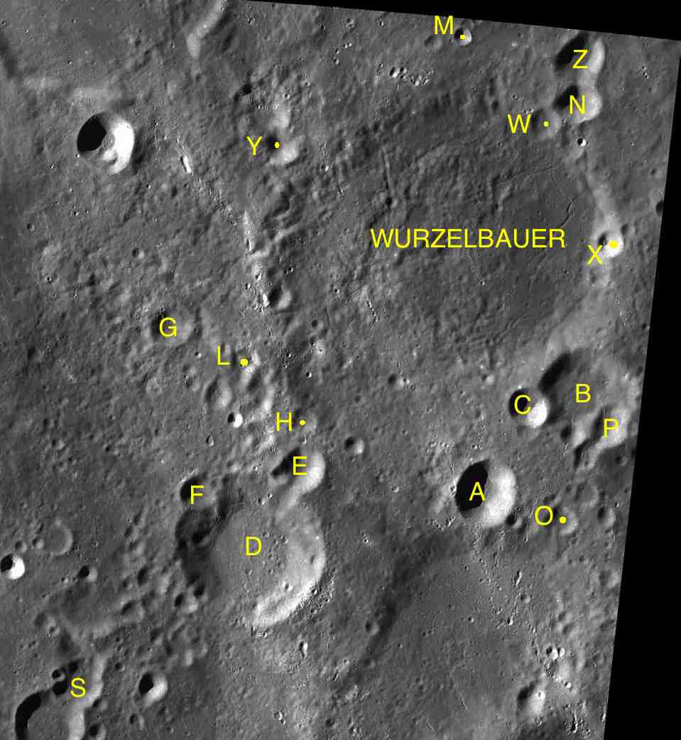 Part of the chart LAC-111 used for the presentation